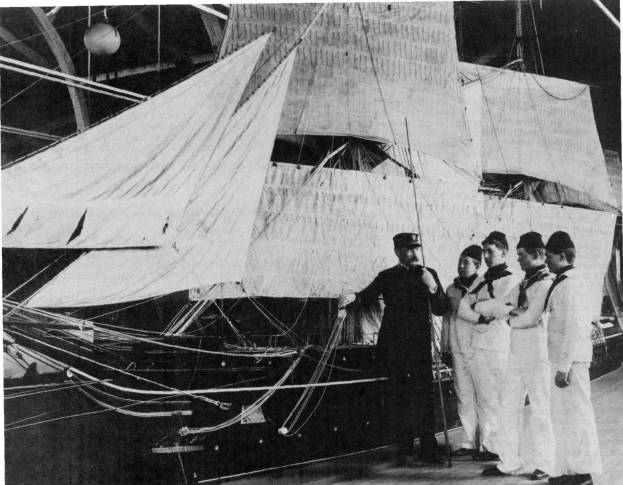 From U.S. Navy public domain - Midshipmen from the Naval Academy Class of 1905 receive instruction in sail rig Antietam, circa 1904. The officer may be Lt. Comdr. H. A. Bispham, heading from the Seamanship Department's model of the department. (NH 51491)